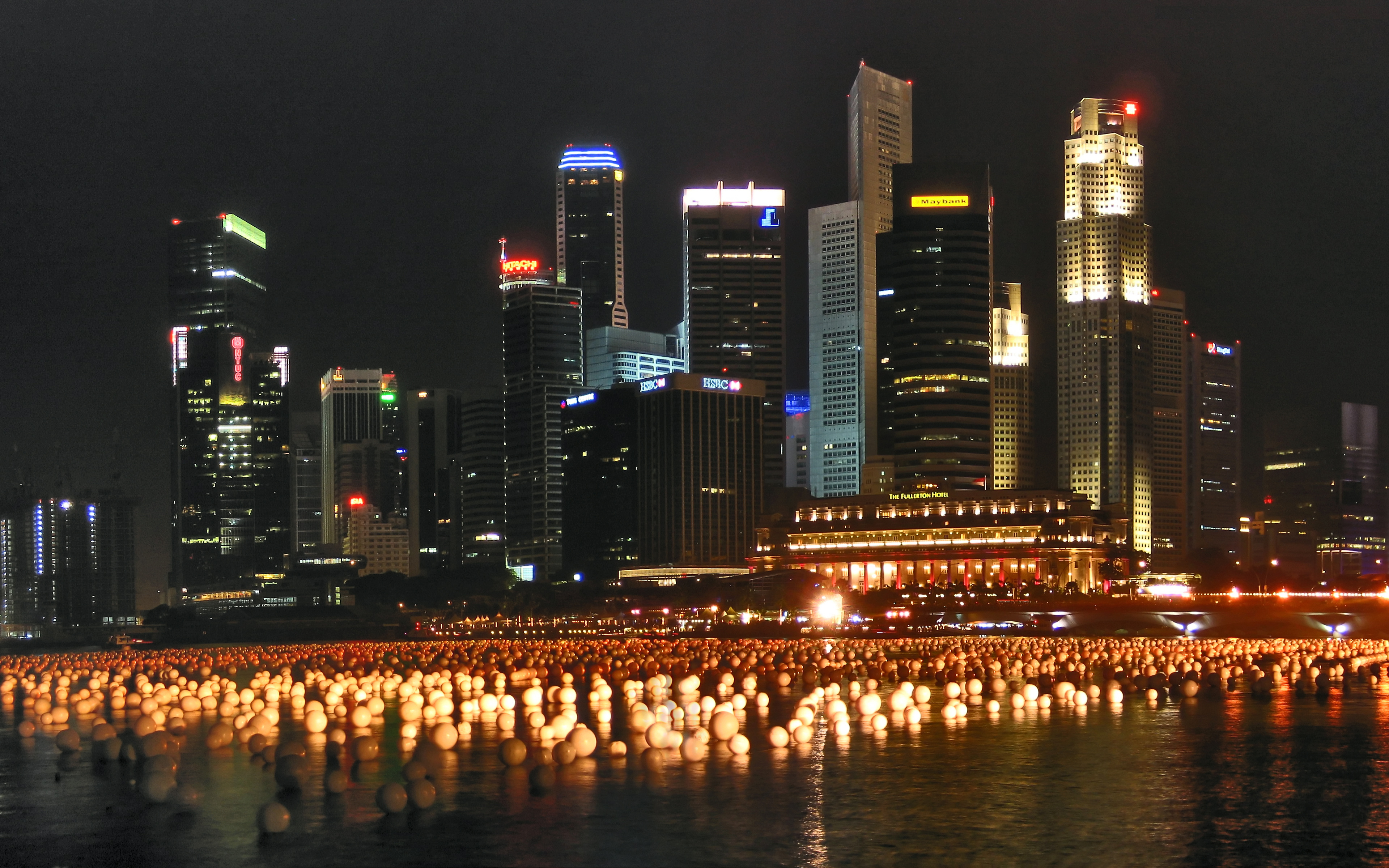 Skyscrapers illuminating the city and bringing light into the resplendent night - The Skyline of the Central Business District of Singapore City, showing Marina Bay and Raffles Place. The inflatable plastic balls are decorations used to celebrate the new year; they contain messages, such as wishes for the future.